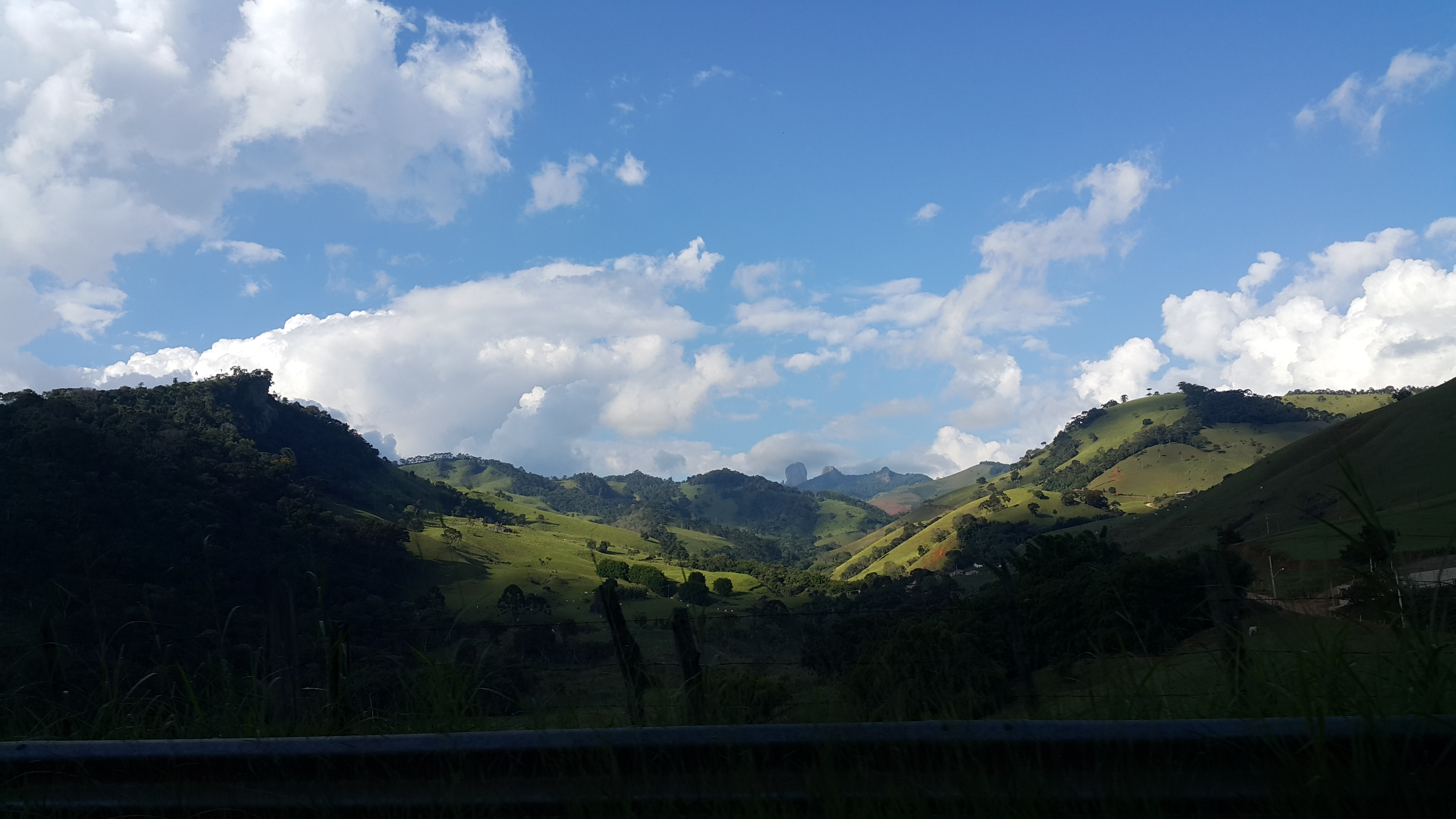 A view of SP-042 (Vereador Júlio da Silva Highway), with Pedra do Baú complex in the background, in São Bento do Sapucaí, São Paulo, Brazil.